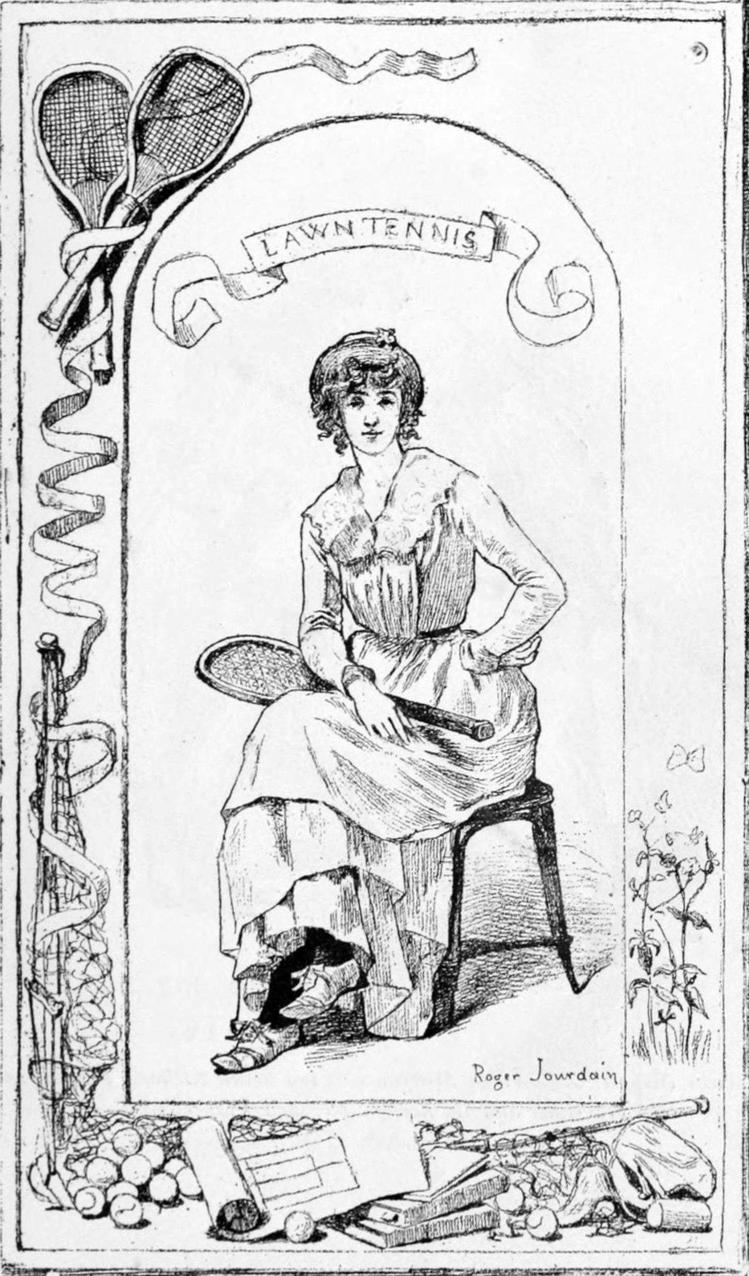 Lawn Tennis